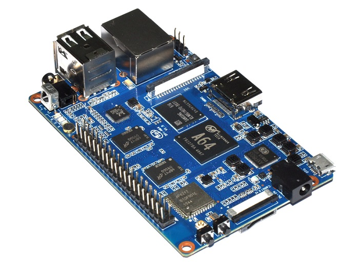 Banana pi BPI-M64